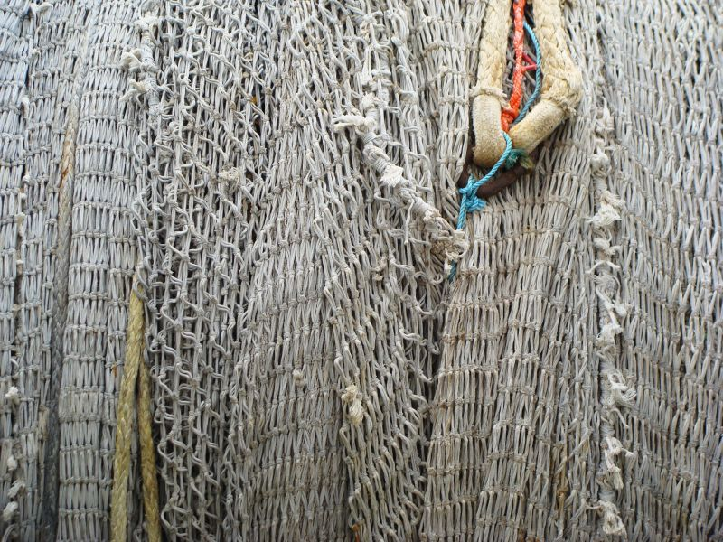 Fishing nets